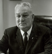 Charles A. Halleck (1900–1986), an American politician